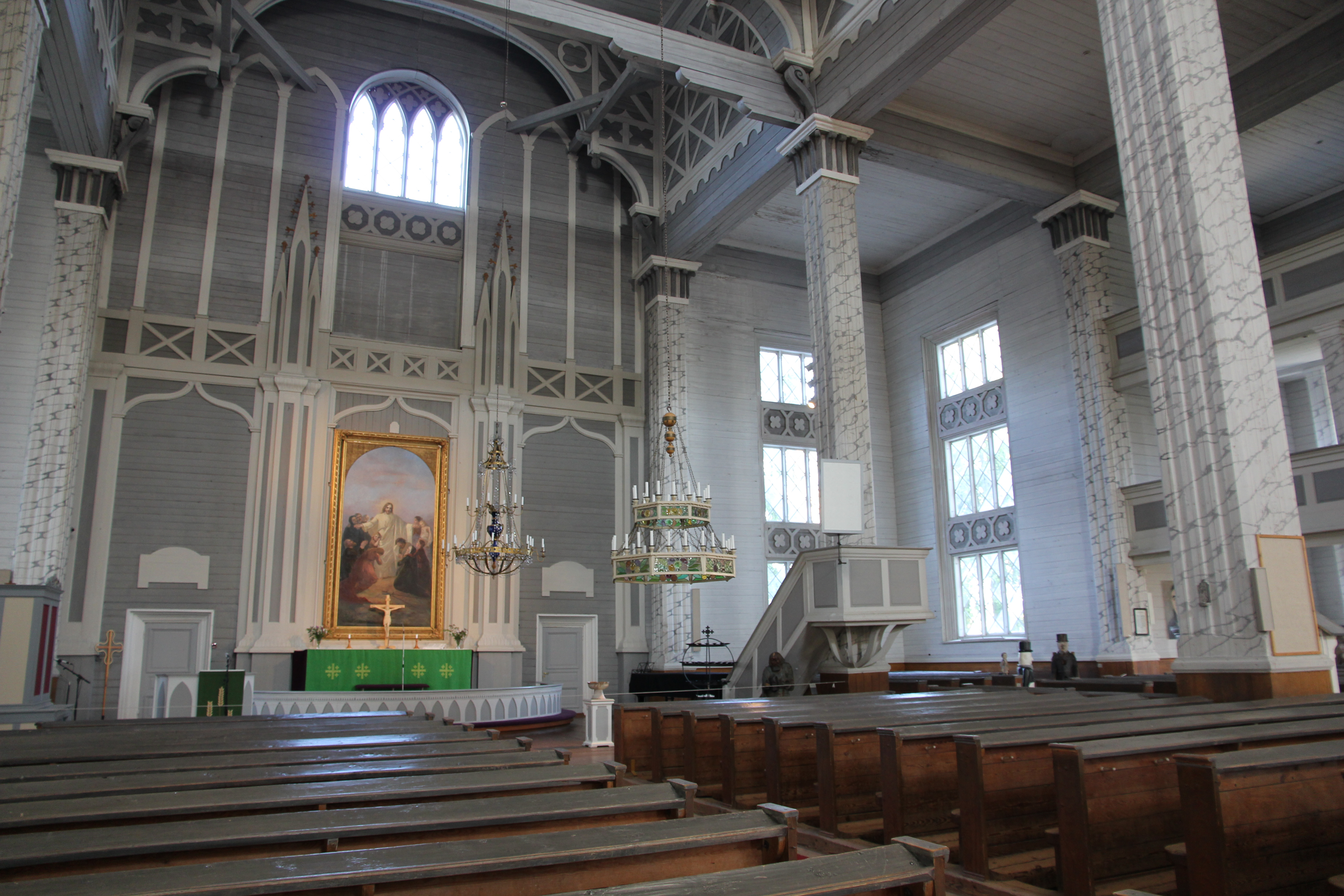 Interior of Kerimäki church.